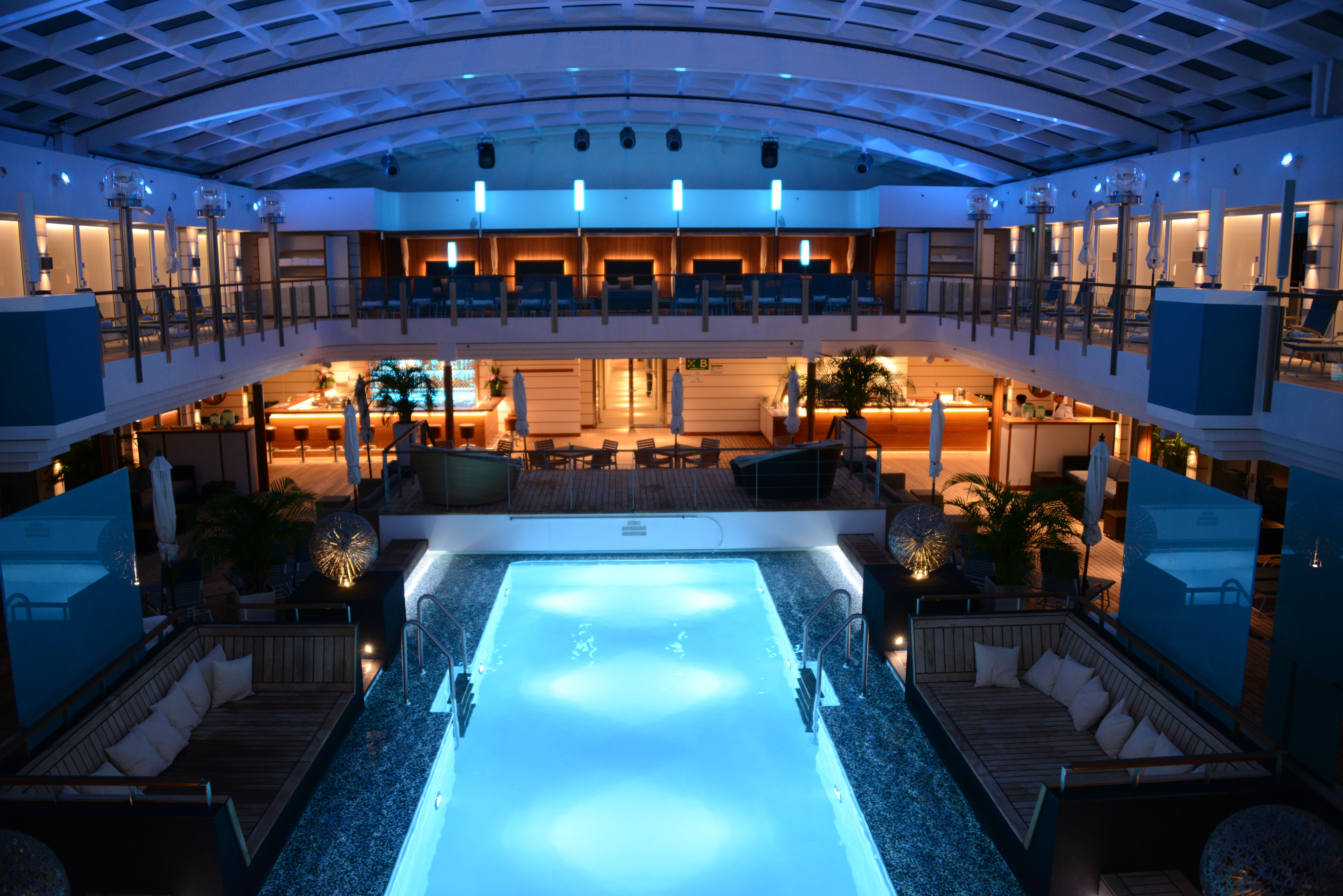 Swimmingpool onboard cruiseship MS Europa 2